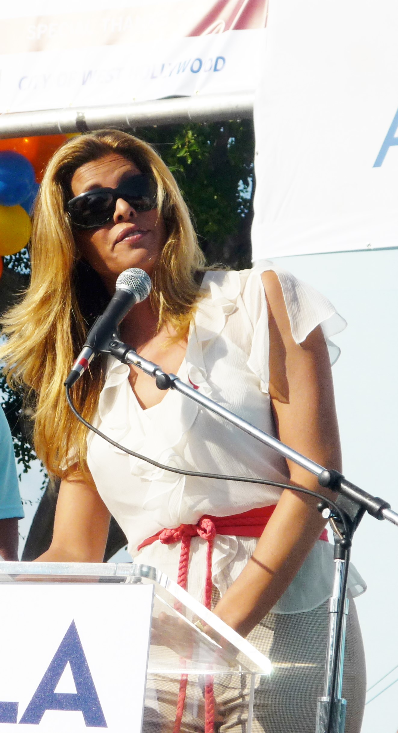 Candis Cayne crop.